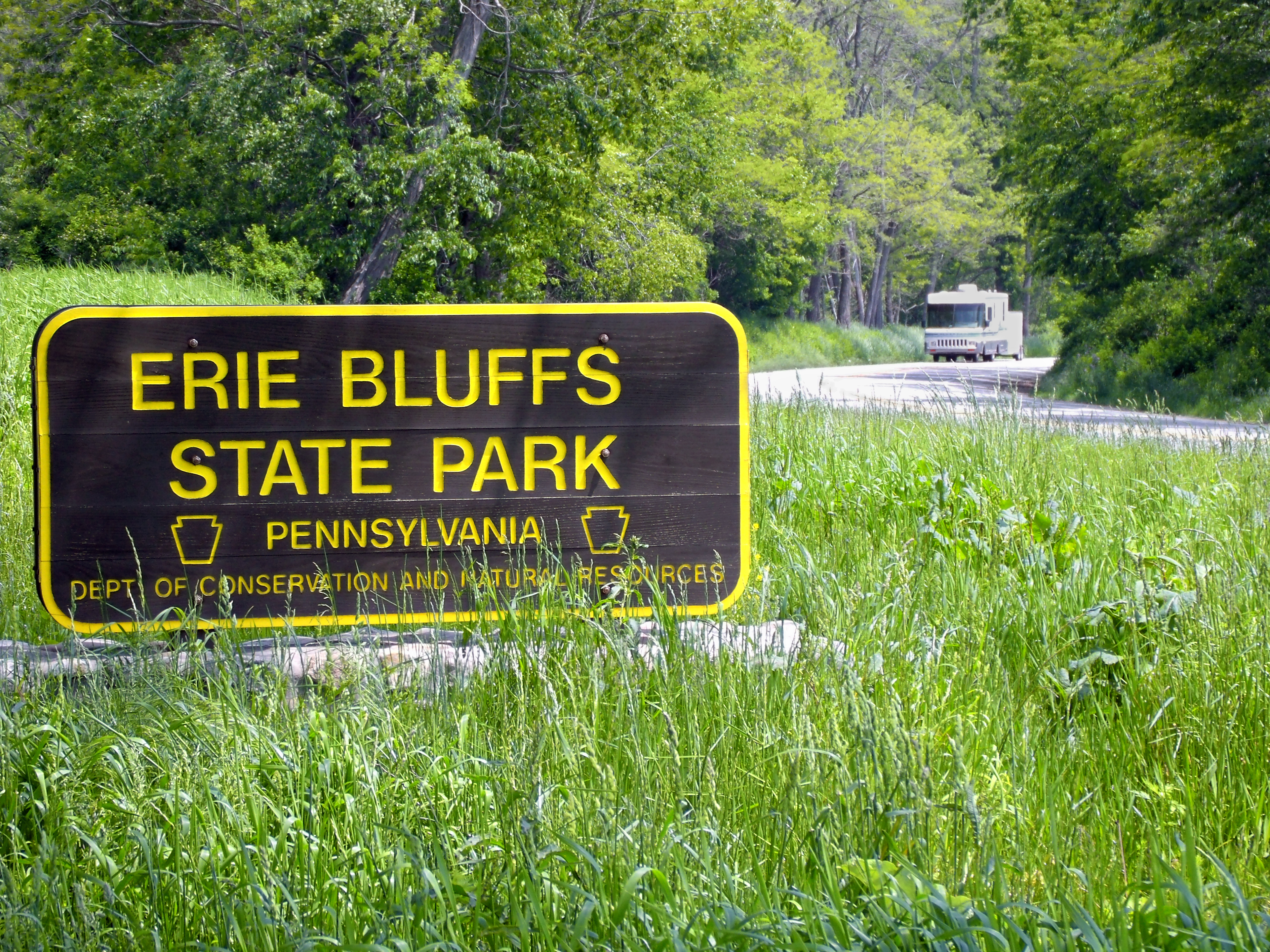 Along PA Route 5, Erie County, Pennsylvania, USA